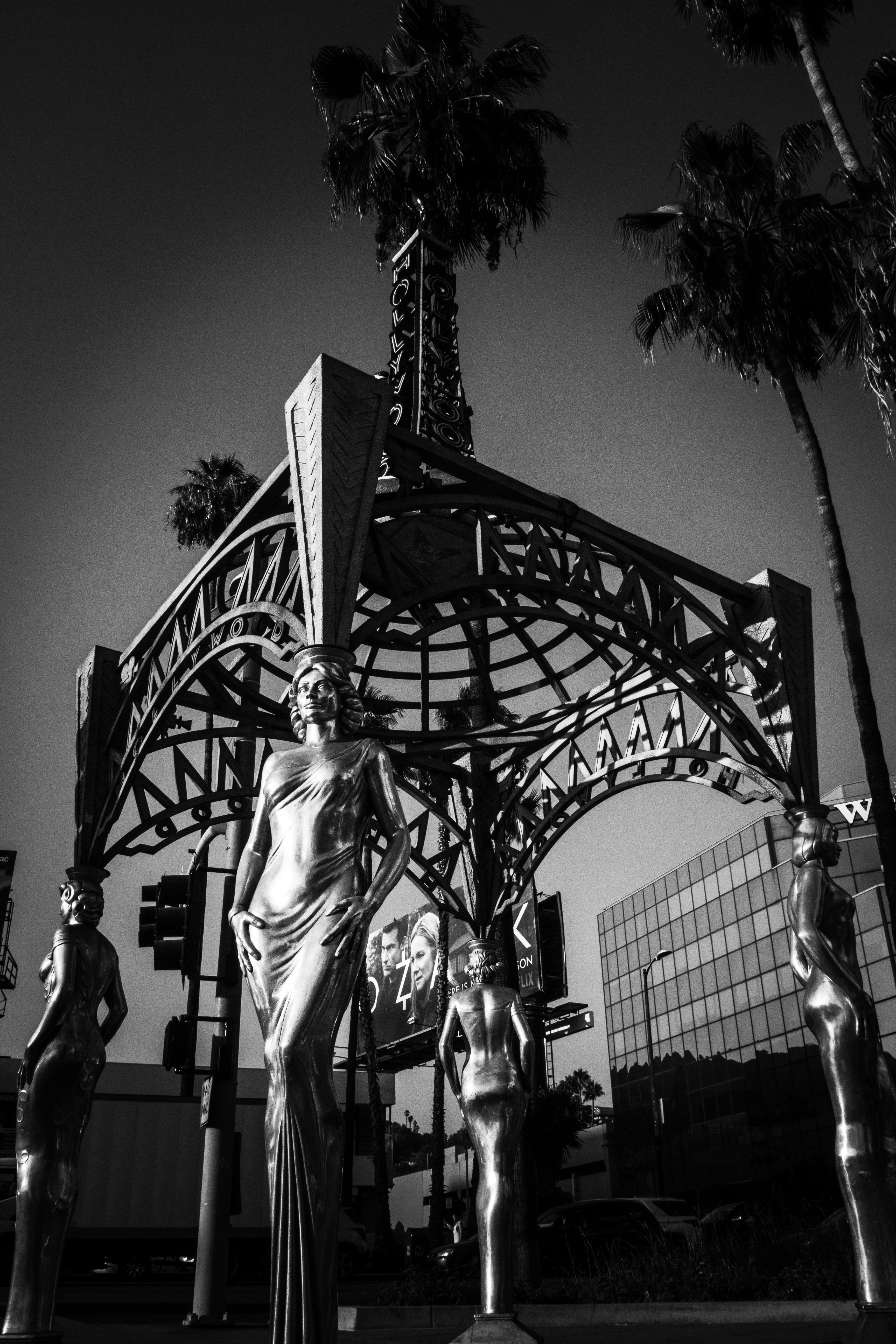 Four Ladies of Hollywood and statue to Marilyn Monroe at the western start of the Hollywood walk of fame.